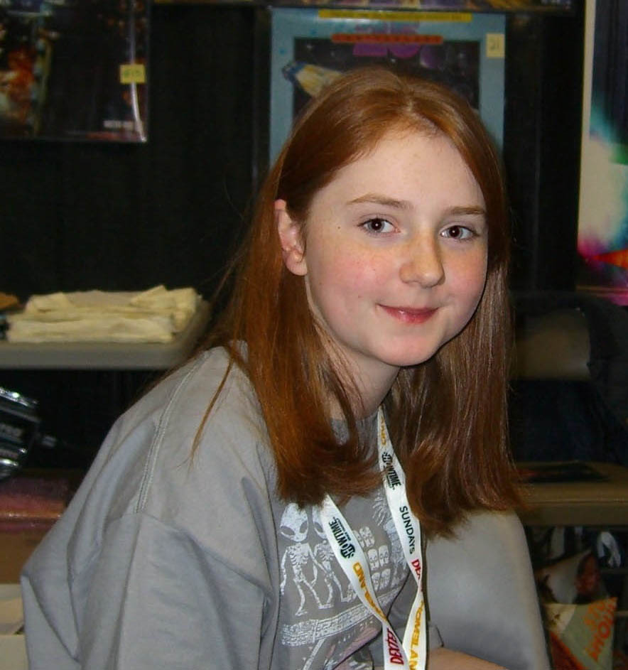 Actress Caitlin Blackwood, who appeared as young Amy Pond in the Doctor Who episode "The Big Bang", on Day 3 of the 2012 New York Comic Con, Saturday October 13, 2012 at the Jacob K. Javits Convention Center in Manhattan. This photo was created by Luigi Novi. It is not in the public domain, and use of this file outside of the licensing terms is a copyright violation.